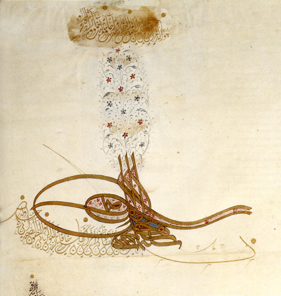 Tughra of Suleiman II. The text above translates: "Shah Süleyman, son of Ibrahim Han, the Victorious". Tin, colours and gold on paper. Located at the Sakip Sabancı Müzesi, Istanbul. Collection of Sabancý University.